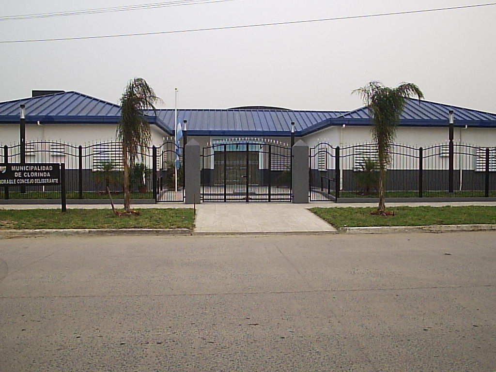 Sede del Concejo Deliberante de la Ciudad de Clorinda. Headquarters of the City Council of the City of Clorinda.